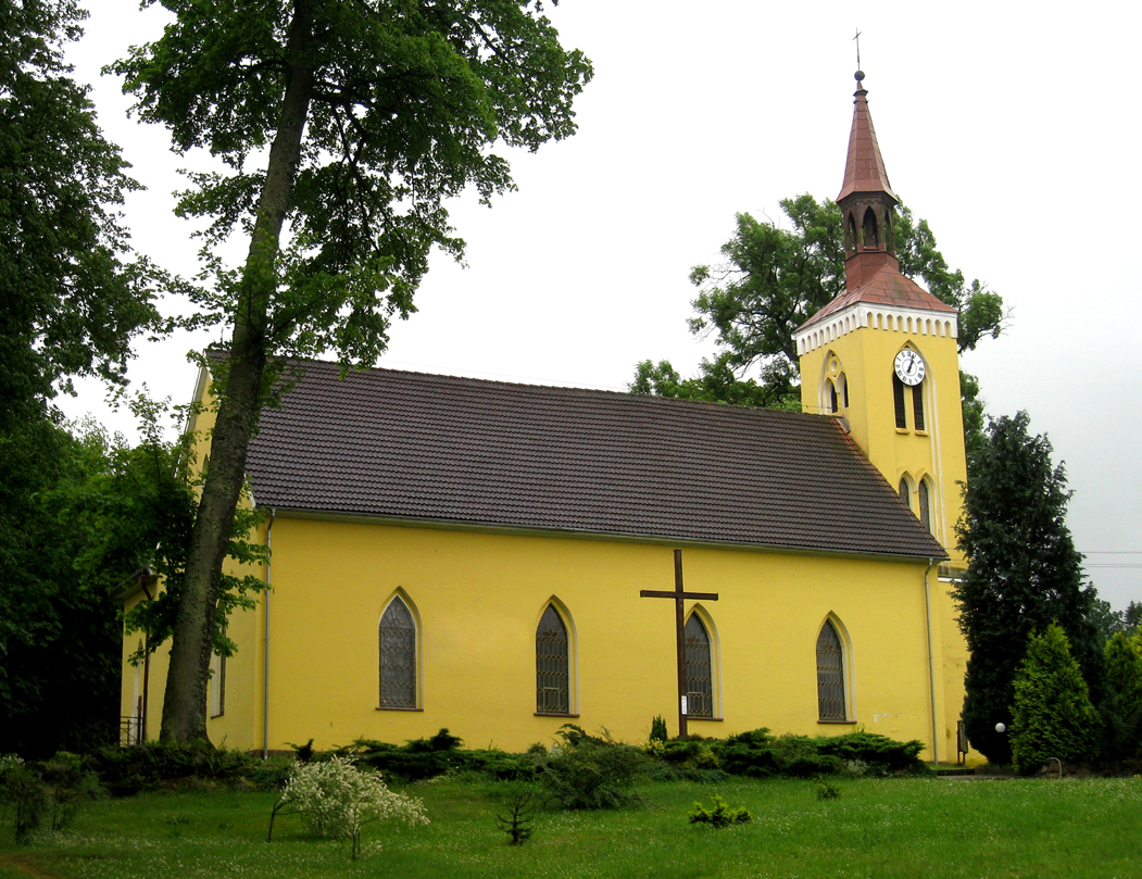 Andrew Bobola parish church in Sulechówko, Poland.